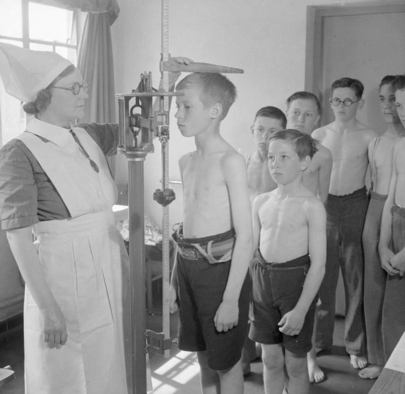 Country School- Everyday Life at Baldock County Council School, Baldock, Hertfordshire, England, UK, 1944 Boys are measured by the school nurse during a medical inspection at Baldock County Council School. According to the original caption, the school nurse is in attendance daily at the school 'minor ailments clinic'.